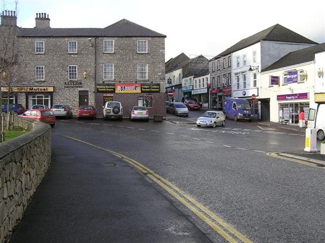 Armagh City About to walk up the street, leaving the car-park off Friary Road